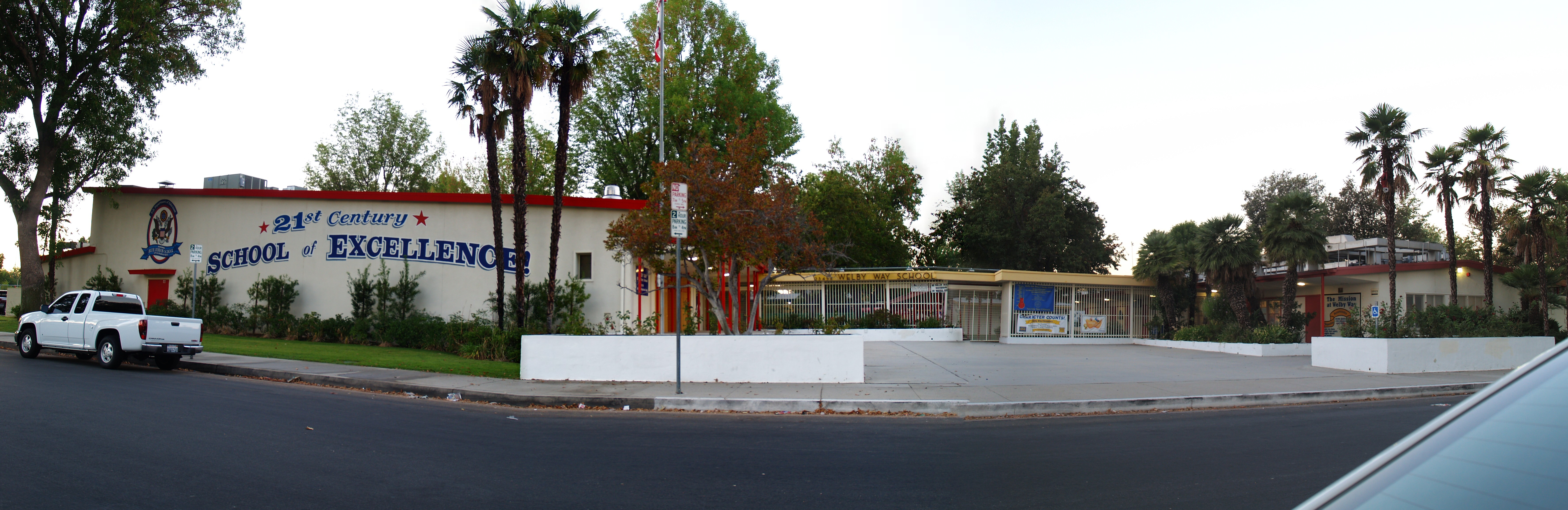 Welby Way Elementary School — at 23456 Welby Way in West Hills, western San Fernando Valley, Los Angeles. Opened in 1960 in the community of Canoga Park, renamed West Hills in 1987.